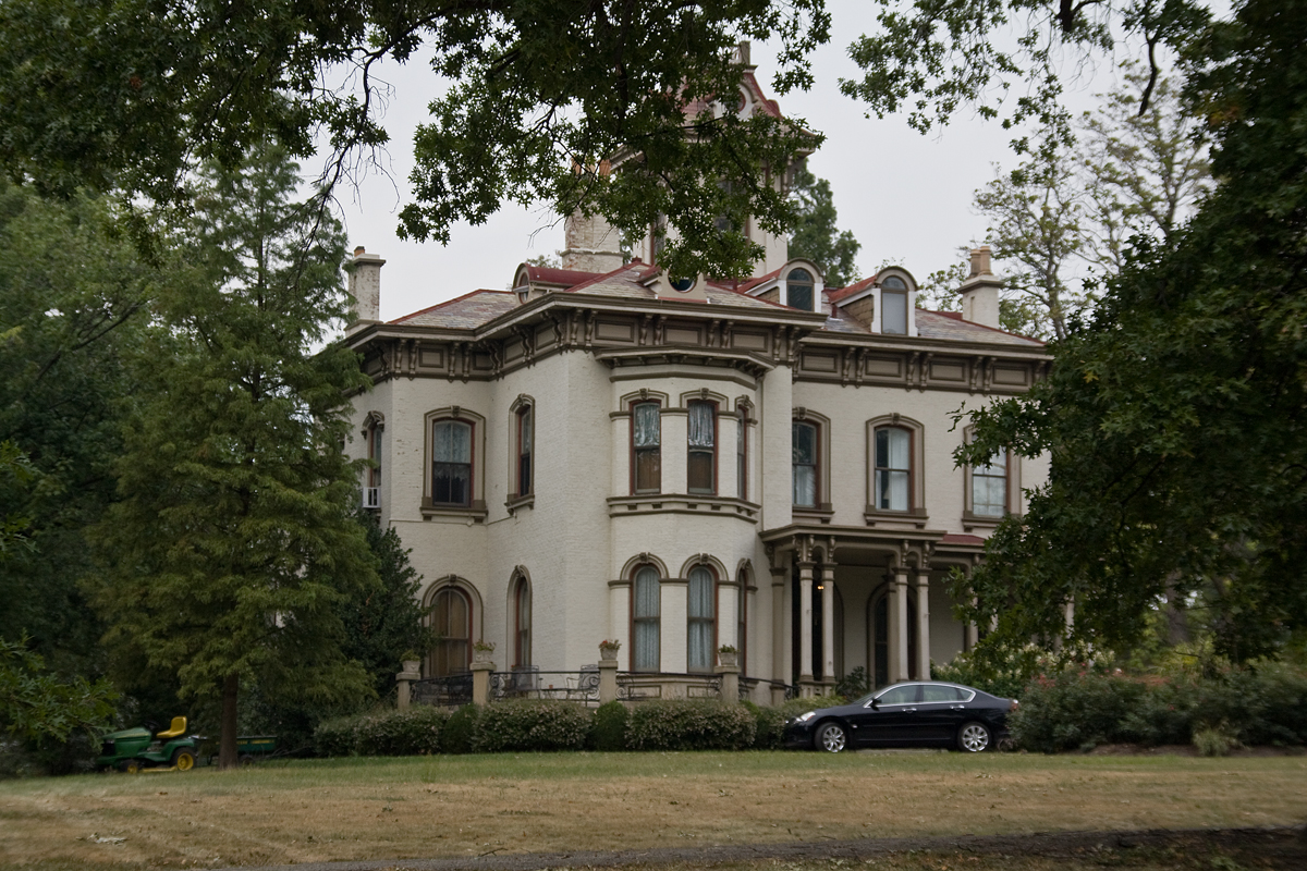 Rawson House in Cincinnati, Oh. Photo by Greg Hume